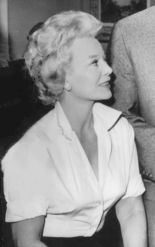 1960 Press Photo Robin Raymond & Olympic track champ, Rafer Johnson, Philp Dunne